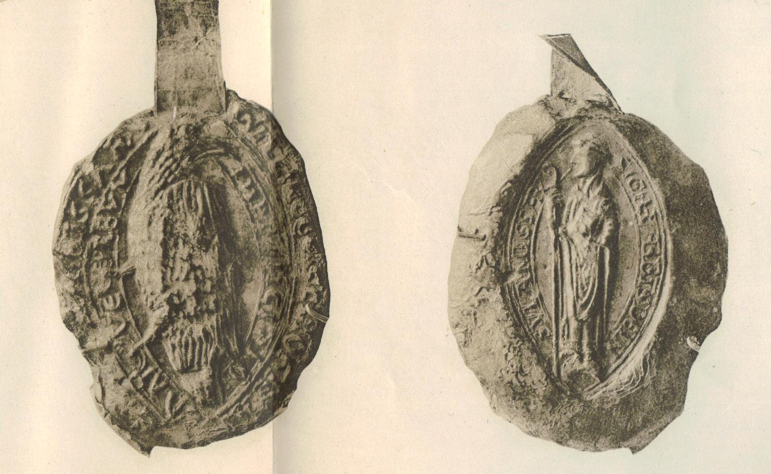 Taken from Lindsay, William Alexander, Dowden, John & Thomson, John Maitland (eds.), Charters of Inchaffray Abbey, 1190-1609, Publications of the Scottish History Society, Volume LVI, (Edinburgh, 1908), illus 16; from an original of a charter of indenture between Inchaffray Abbey and Brackley Hospital, 1238.